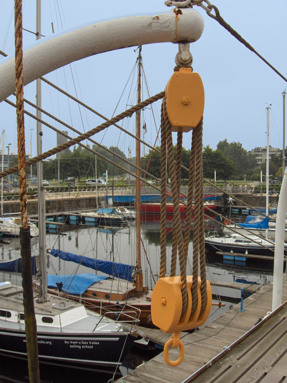 Davit with block and tackle Own work - photo taken by Georges Jansoone on 11 September 2005